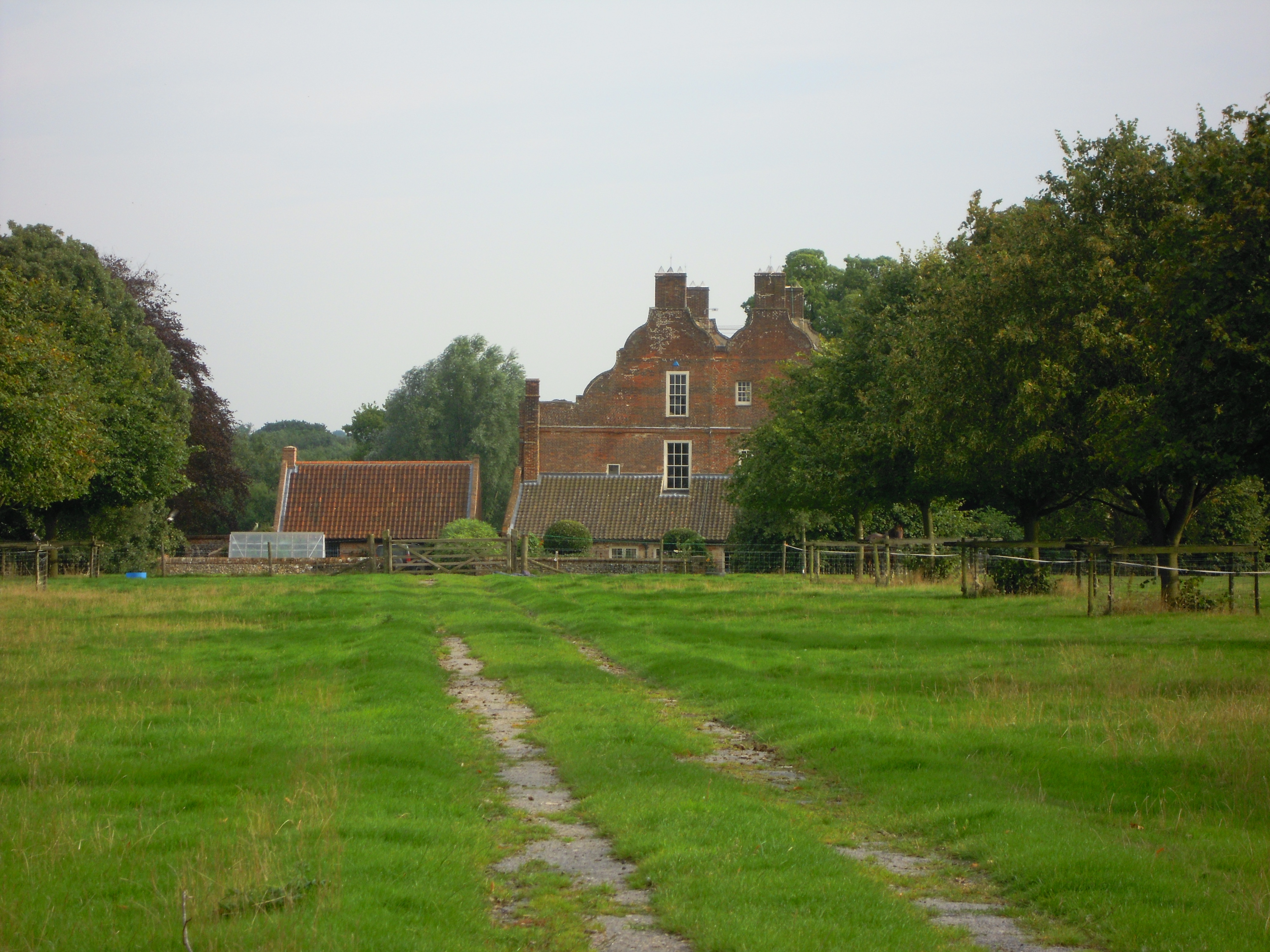 Gateley Hall, Gateley, Norfolk. Gateley Hall is a grade I listed building which was built in 1726 and is the ancestral home of the Cathcart Family